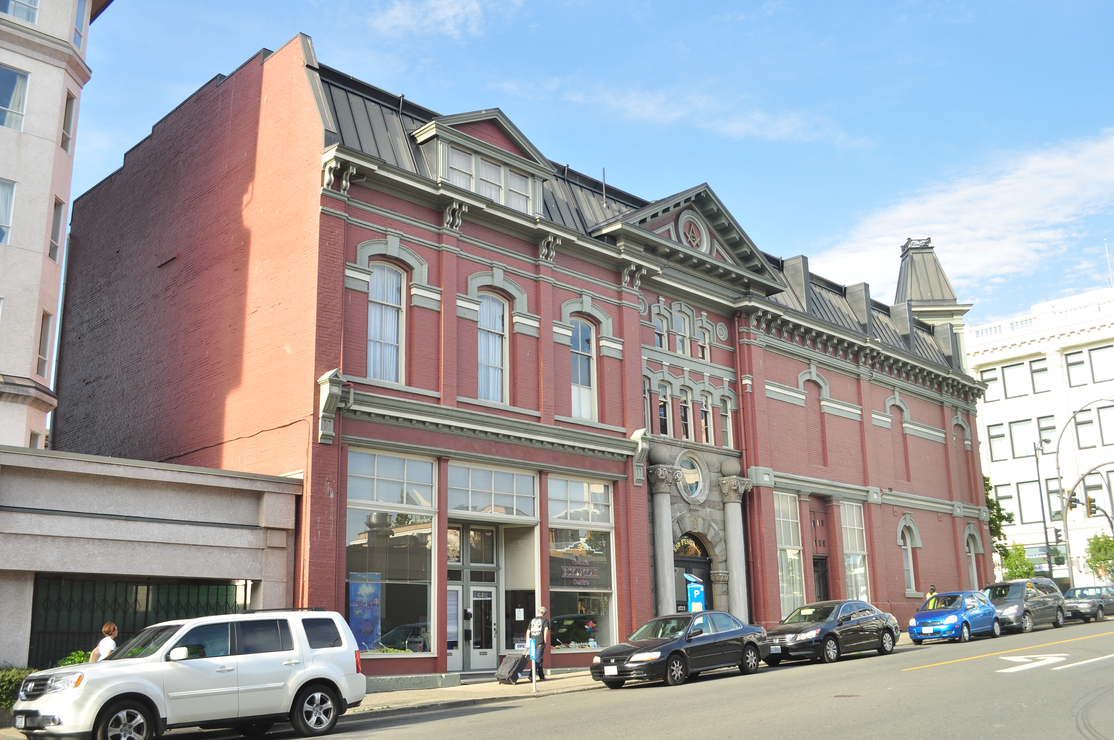 Masonic Temple, a.k.a. Victoria Columbia Lodge No. 1, 646-654 Fisgard Street, Victoria, British Columbia.